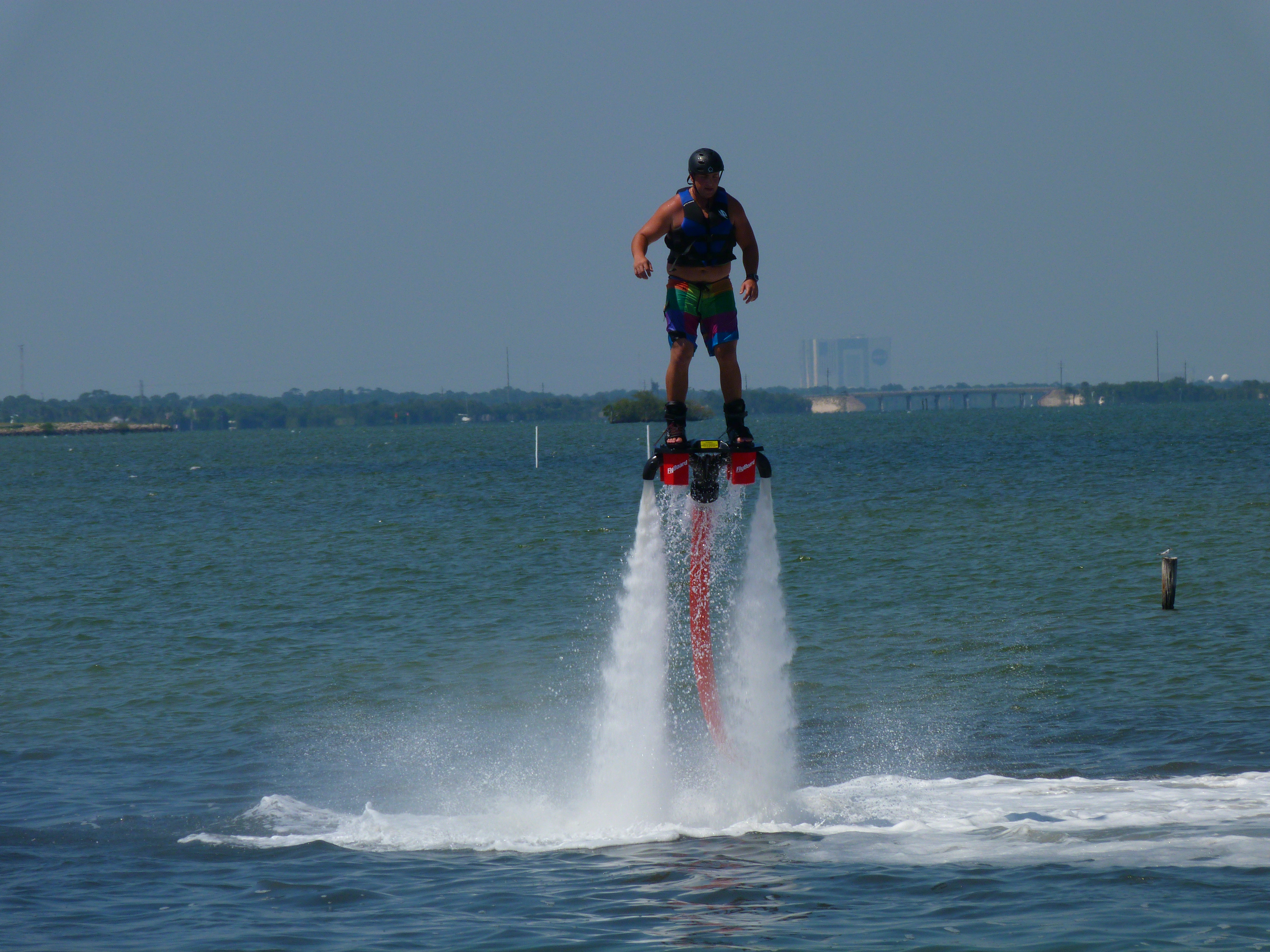 VAB in the background at Kennedy Space Center